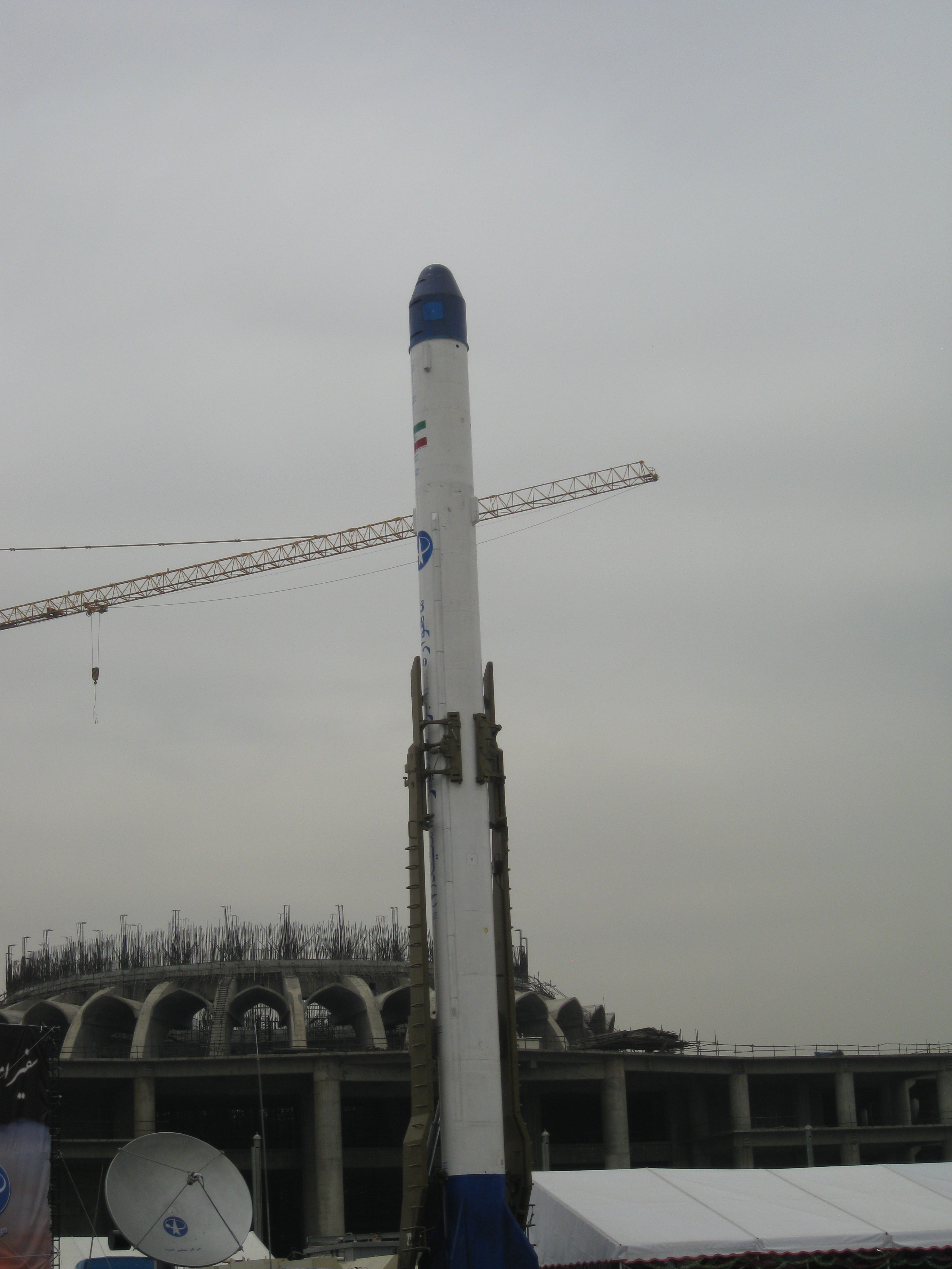 Omid [was Iran's first domestically made satellite Described as a data-processing satellite for research and telecommunications, Iran's state television reported that it was successfully launched on February 2, 2009